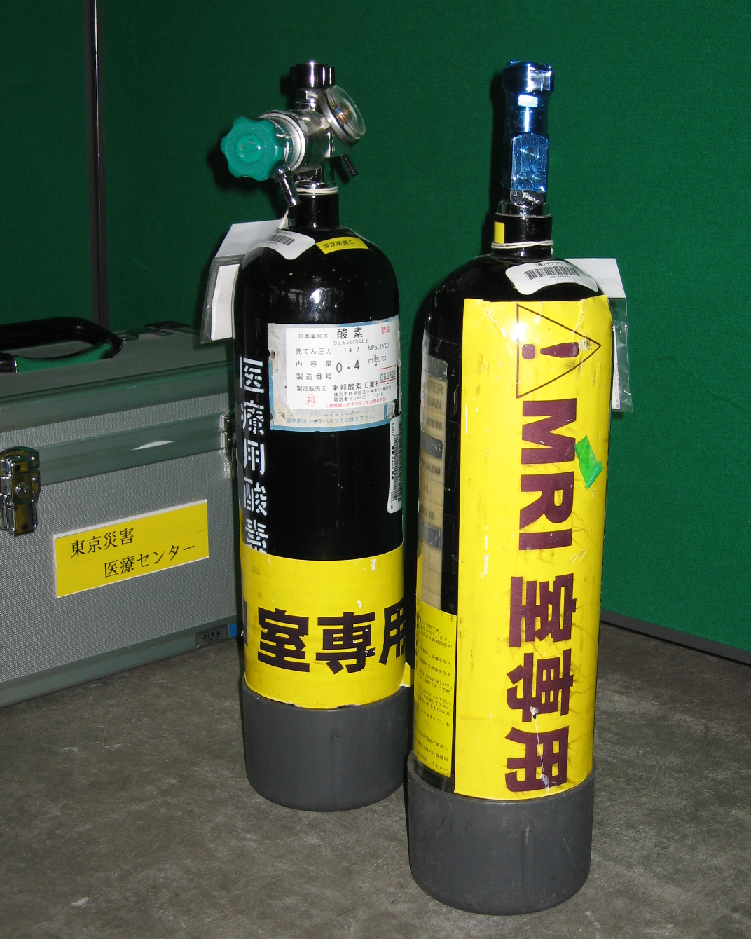 Oxygen cylinders for use in MRI room only, used at the National Disaster Medical Center, Tachikawa, Tokyo, Japan.